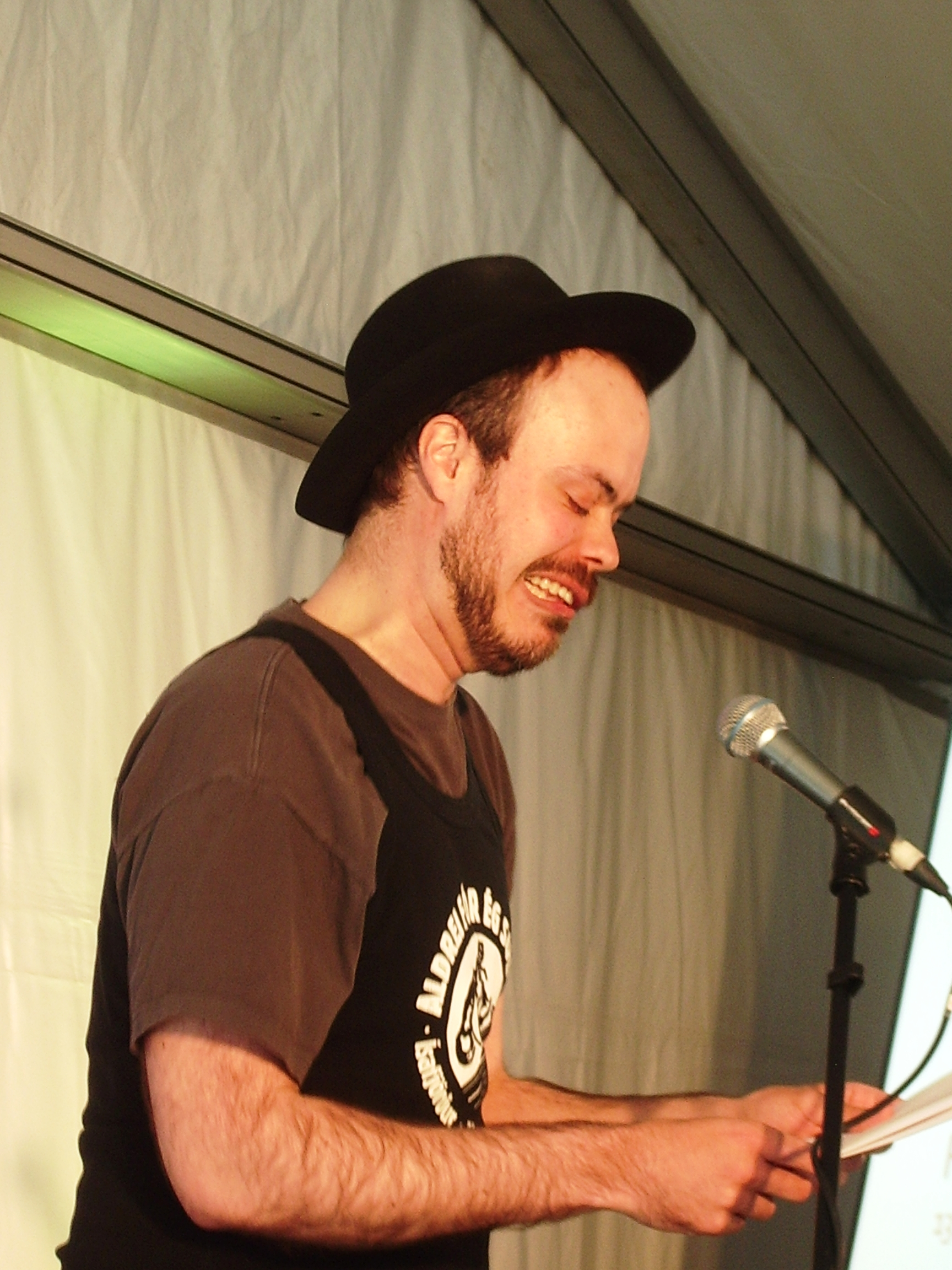 Eiríkur Örn Norðdahl (born 1978) is Icelandic sound poet.